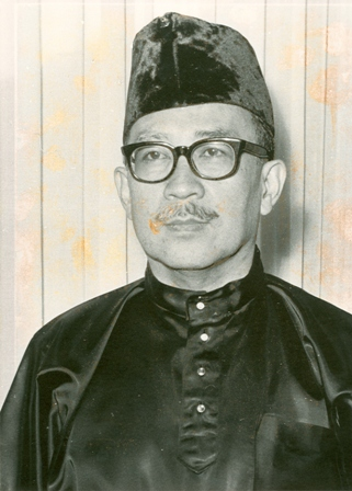 RBIN Djajadinigrat as Indonesia Ambassador to Belgium